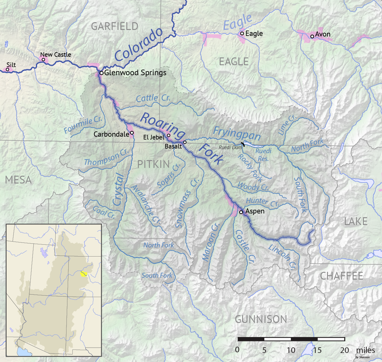 Map of the Roaring Fork River drainage basin in western Colorado, USA. Made using USGS data.